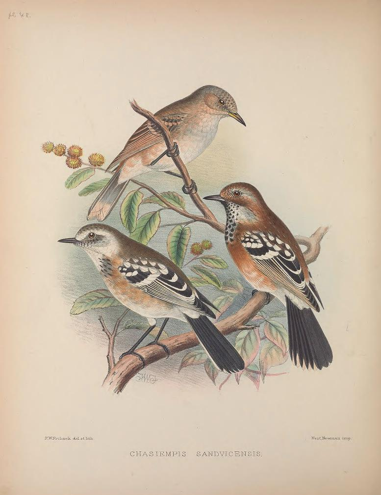 Chasiempis sandwichensis from The Birds of the Sandwich Islands